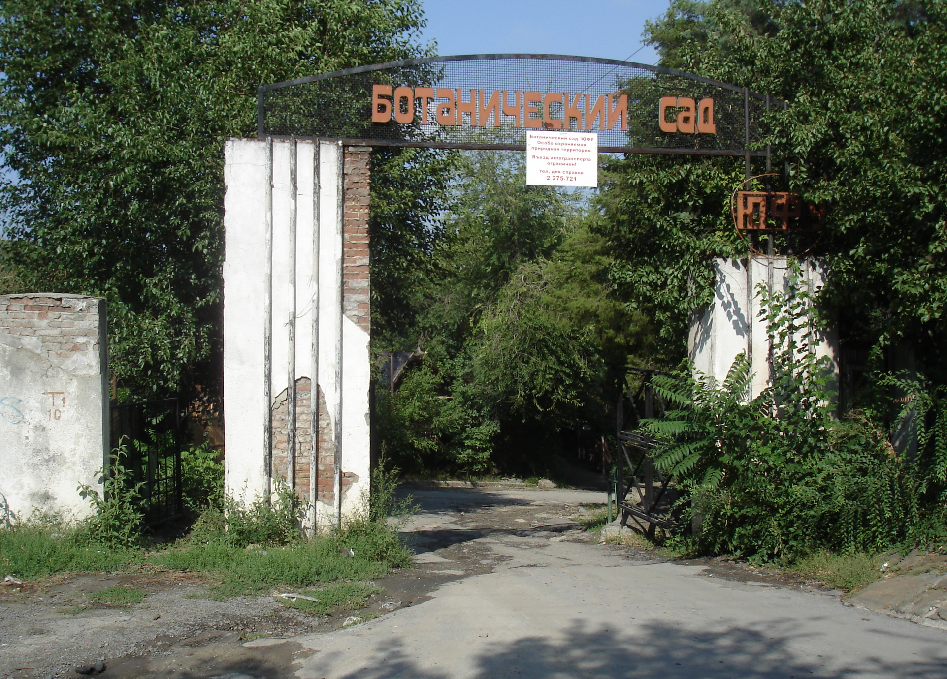 Entrance to Botanical garden in Rostov-on-Don, Russia. This image is related to the protected area of Russia number 6110114